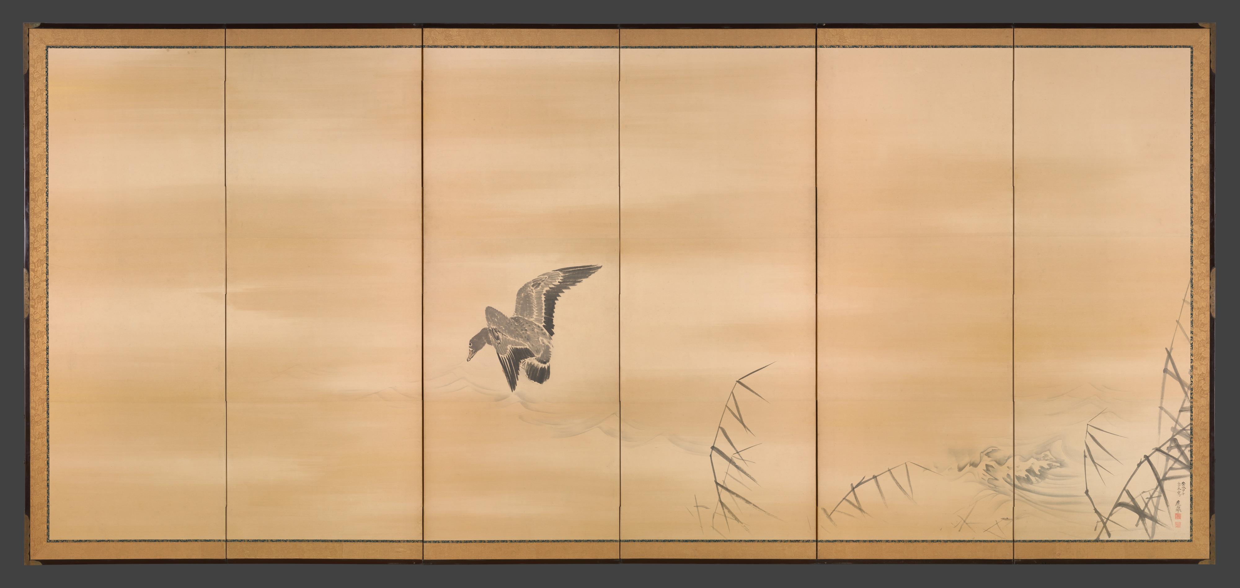 Japan; Screens; Screens